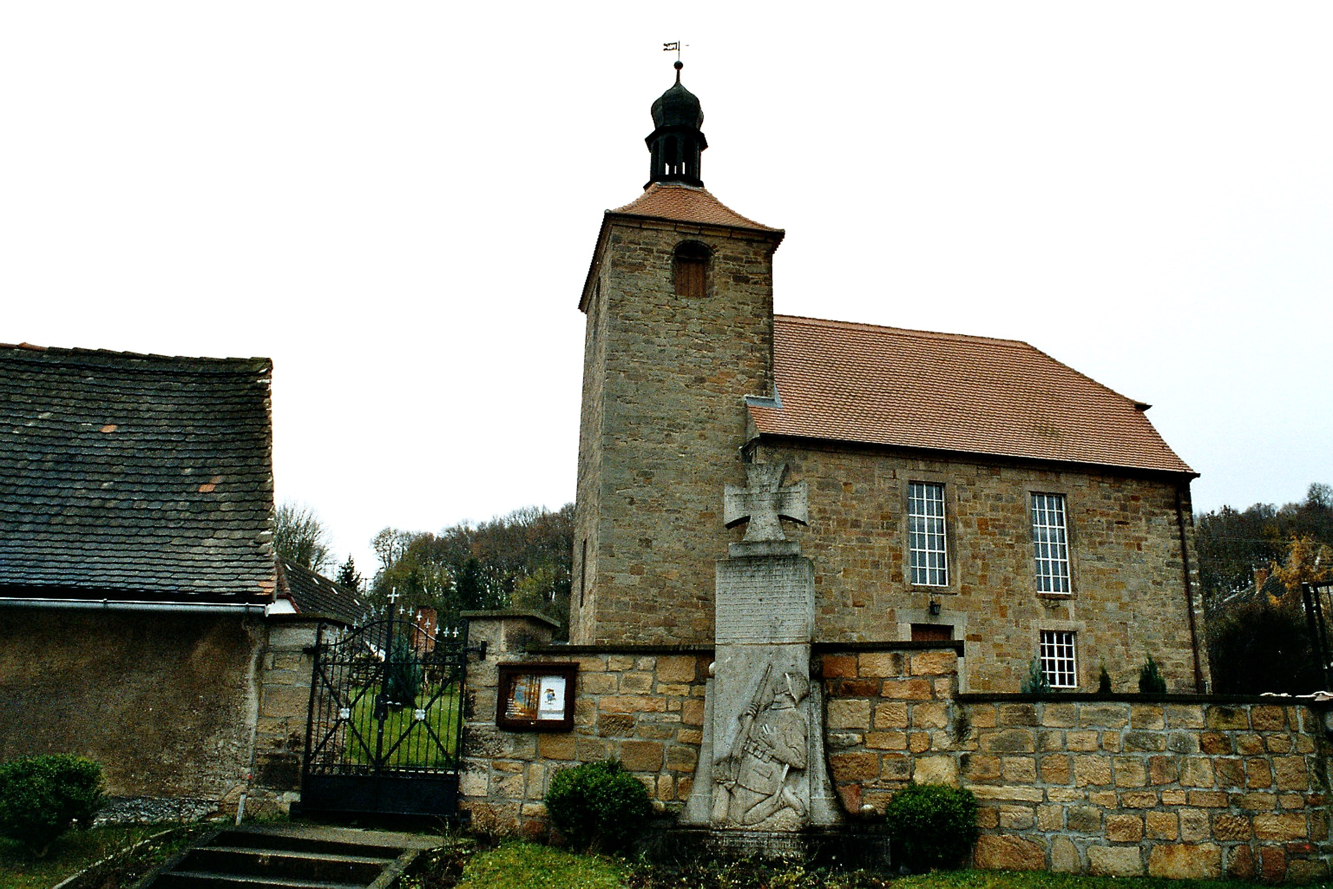 Wippach (Bad Bibra), the village church